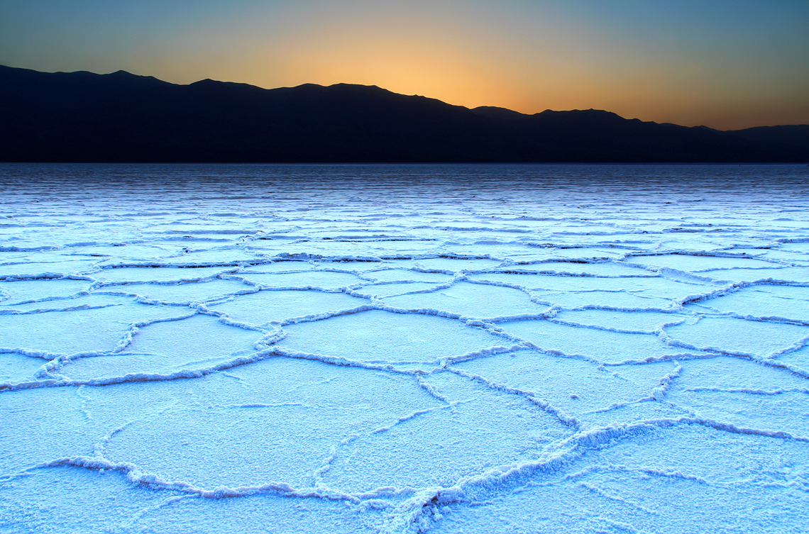 Death Valley's Badwater Salt Flats at Twilight